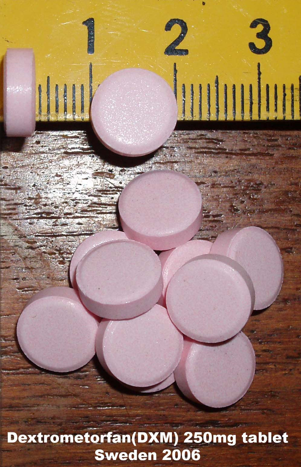 Dextrometorfan DXM 250mg tablet Sweden 2006 Unknown maker